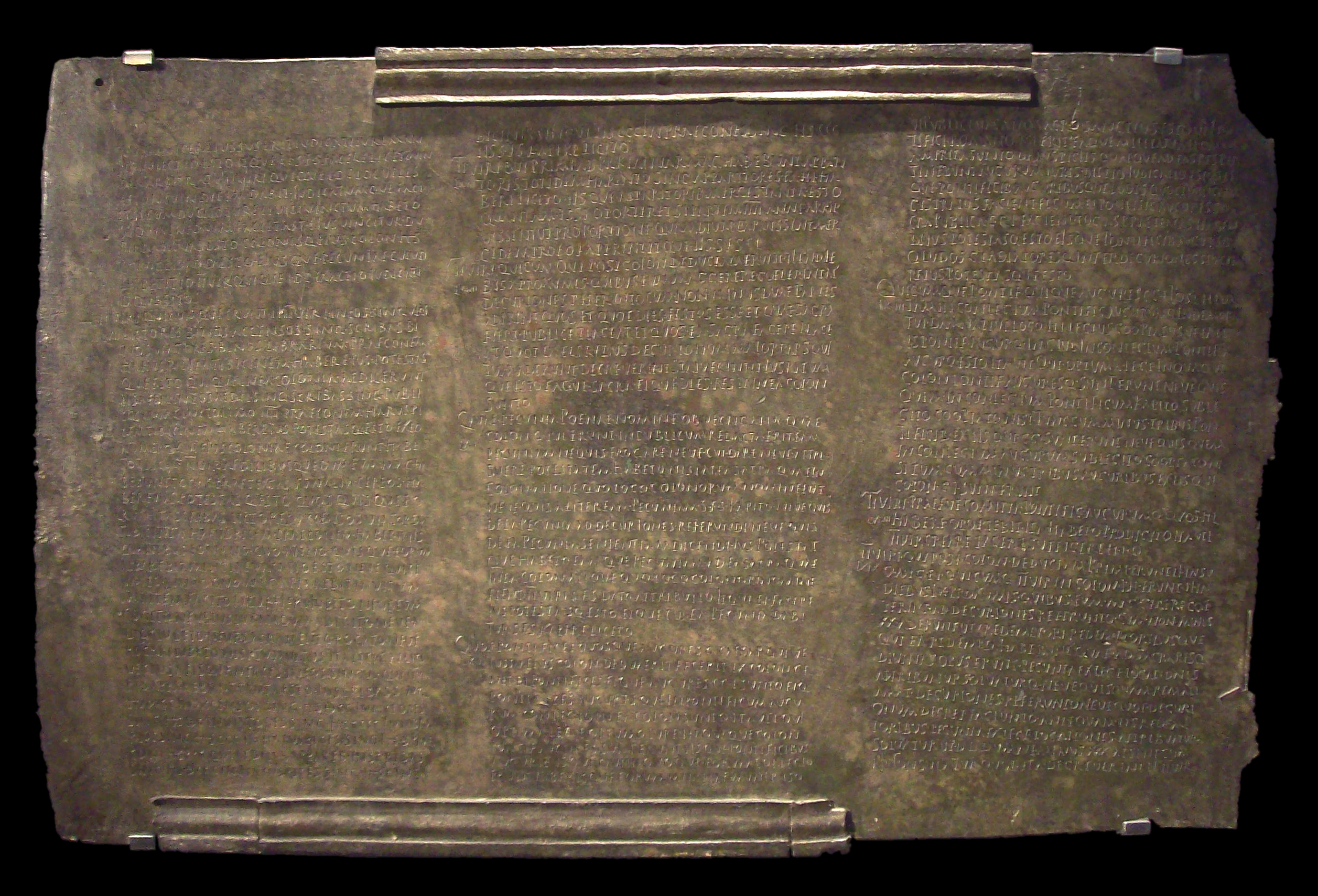 Table 1 (corresponding to # 5 of the original group): from the end of chapter 61 to chapter 69.